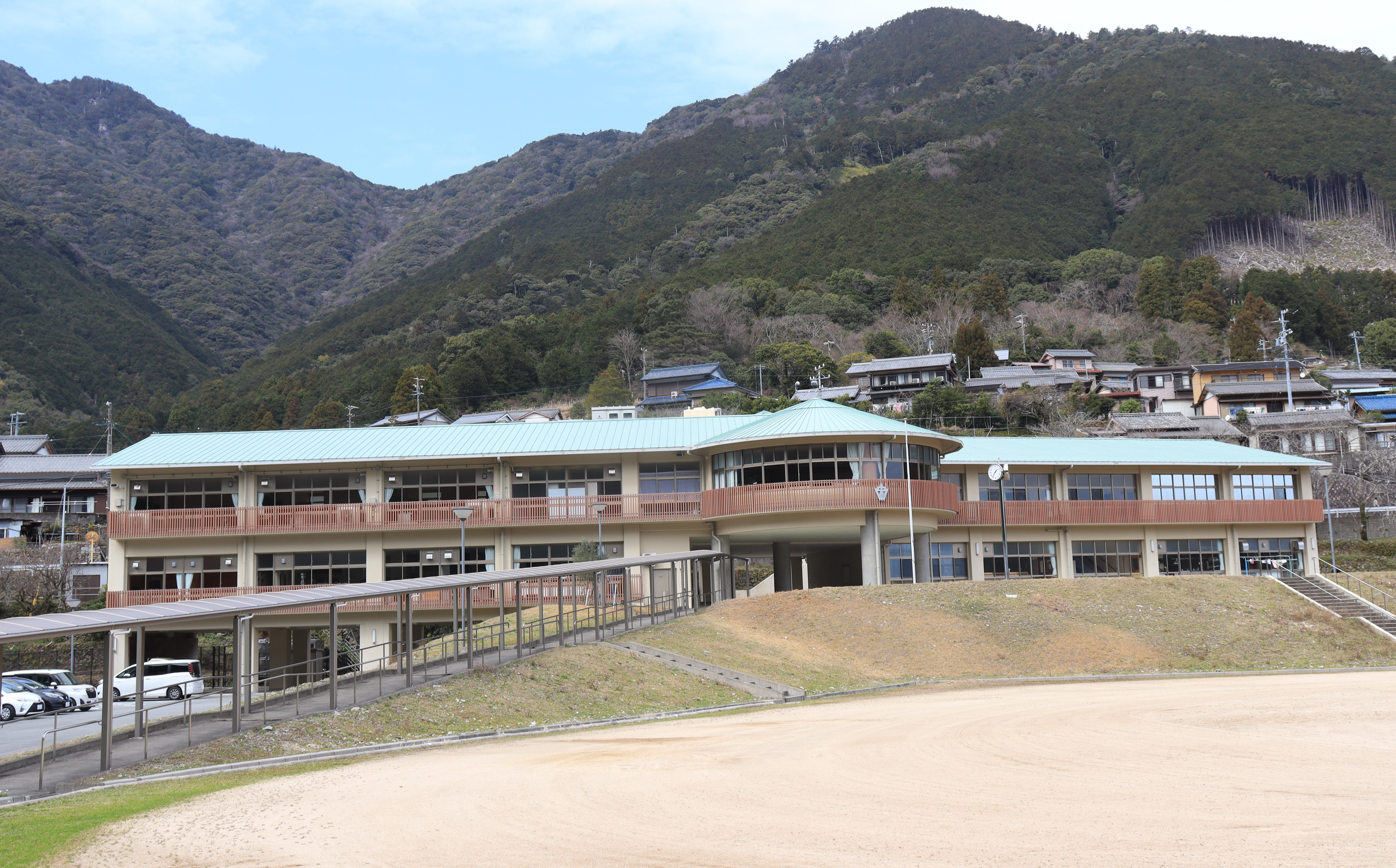 Owase City Wauchi Junior High School in Kata, Owase, Mie Prefecture, Japan.